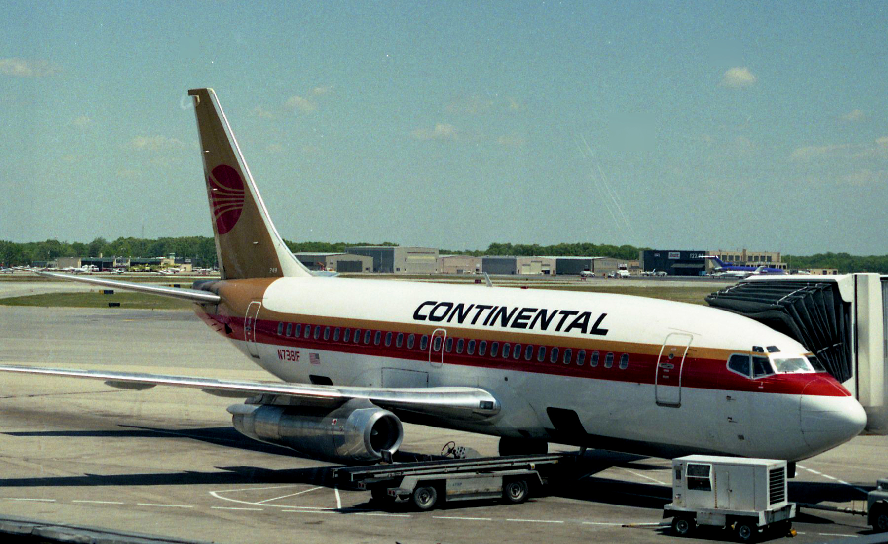 c/n 20369. Delivered to Southwest 1970. To Frontier then Continental. Retired 1997. Scrapped. Waiting to board to Cleveland